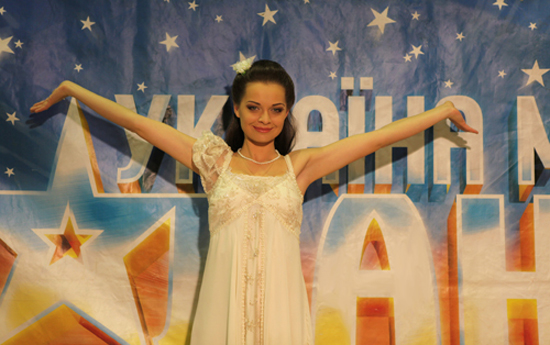 Simonova Kseniya